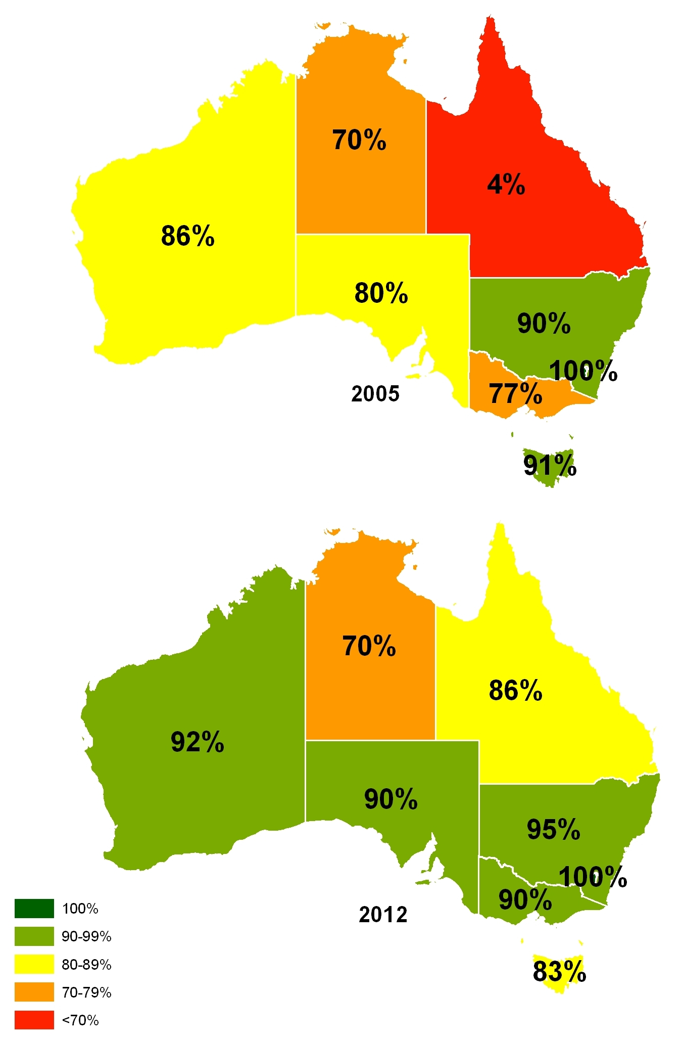 This is an estimation of the access the Australian population has to fluoridated water. Percentages are publicly reported by each of the States.